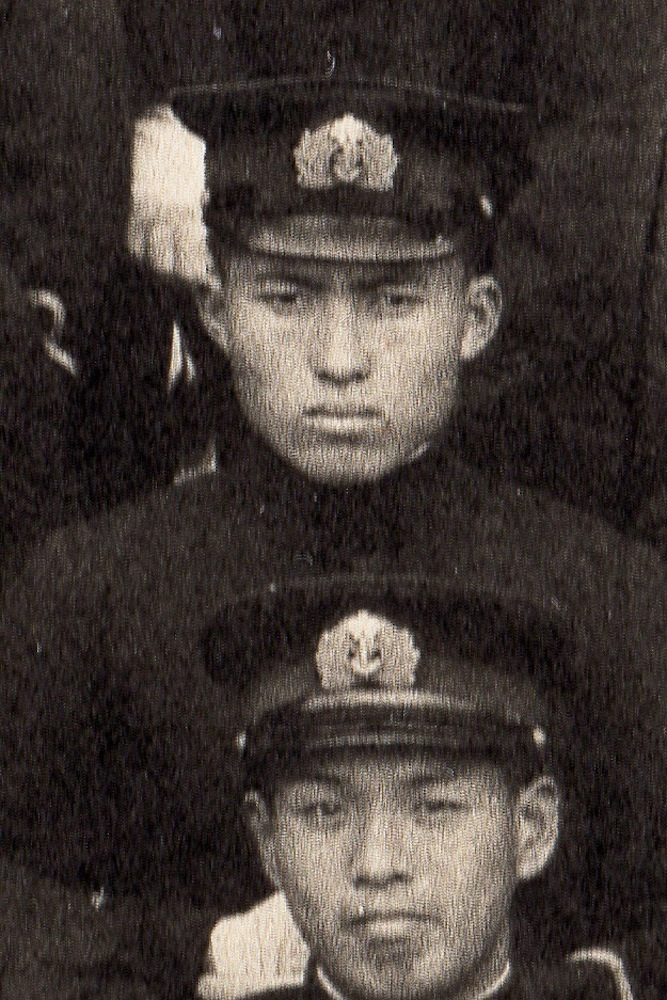 Commander Mamoru Seki